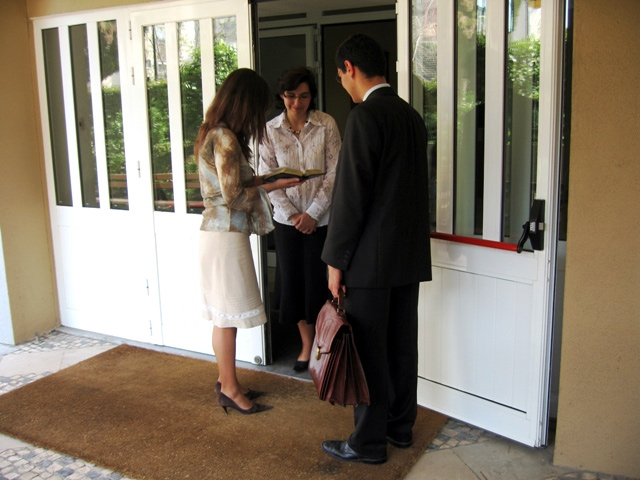 Typical preaching work of Jehovah's Witnesses